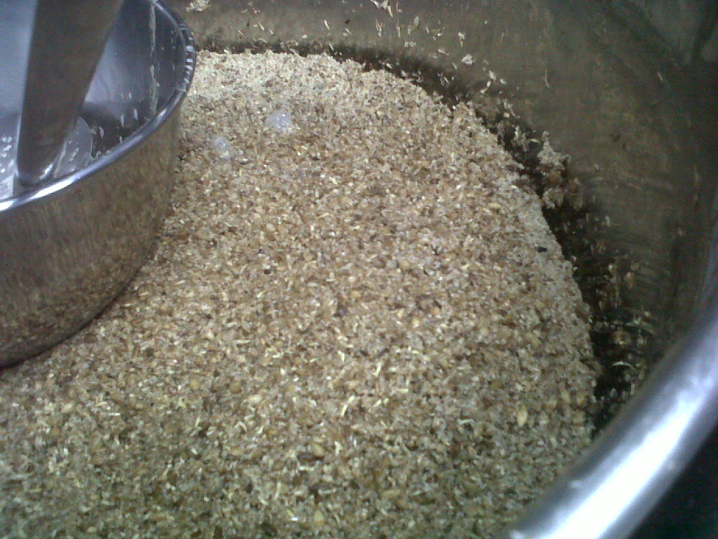 Mashing out beer in a brewpub